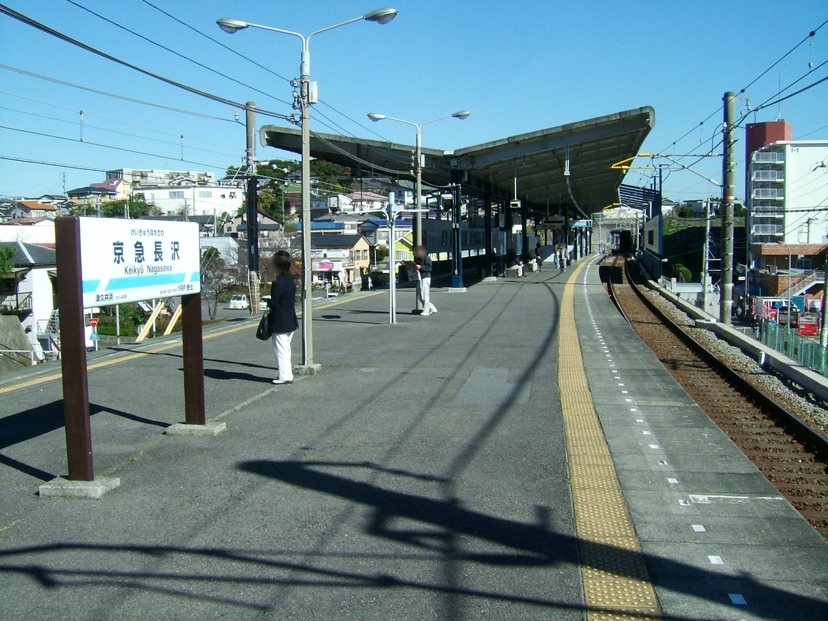 Keikyū Nagasawa Station platform (Keihin Electric Express Railway Kurihama Line)